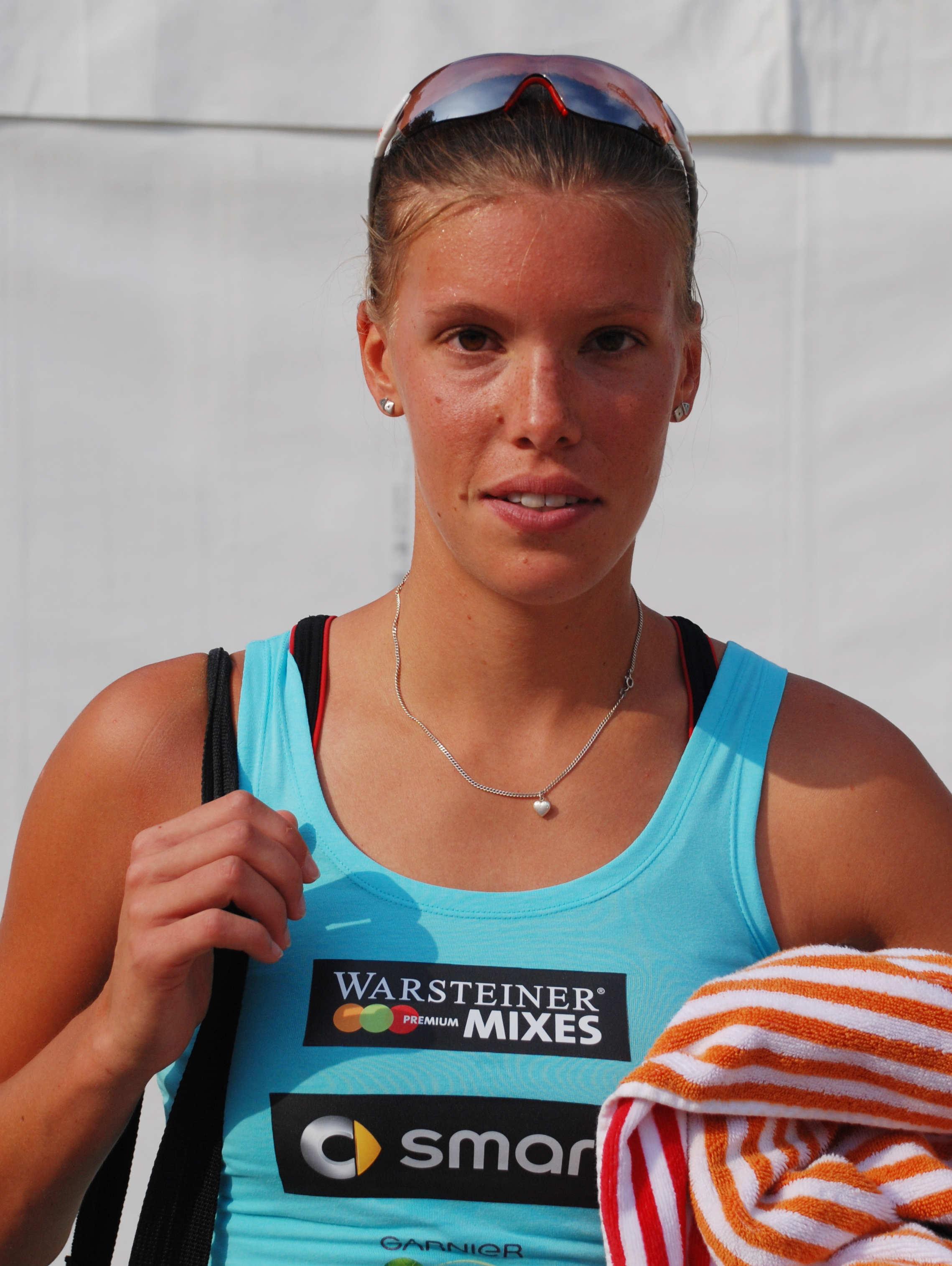 The German beach volleyball player Stefanie Hüttermann.